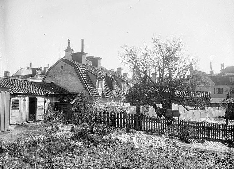 Kattgränd 8, gårdsinteriör 1908-1908FOTOGRAF: . Larssons AteljéBILDNUMMER: Fa 7111Stadsmuseet i Stockholm